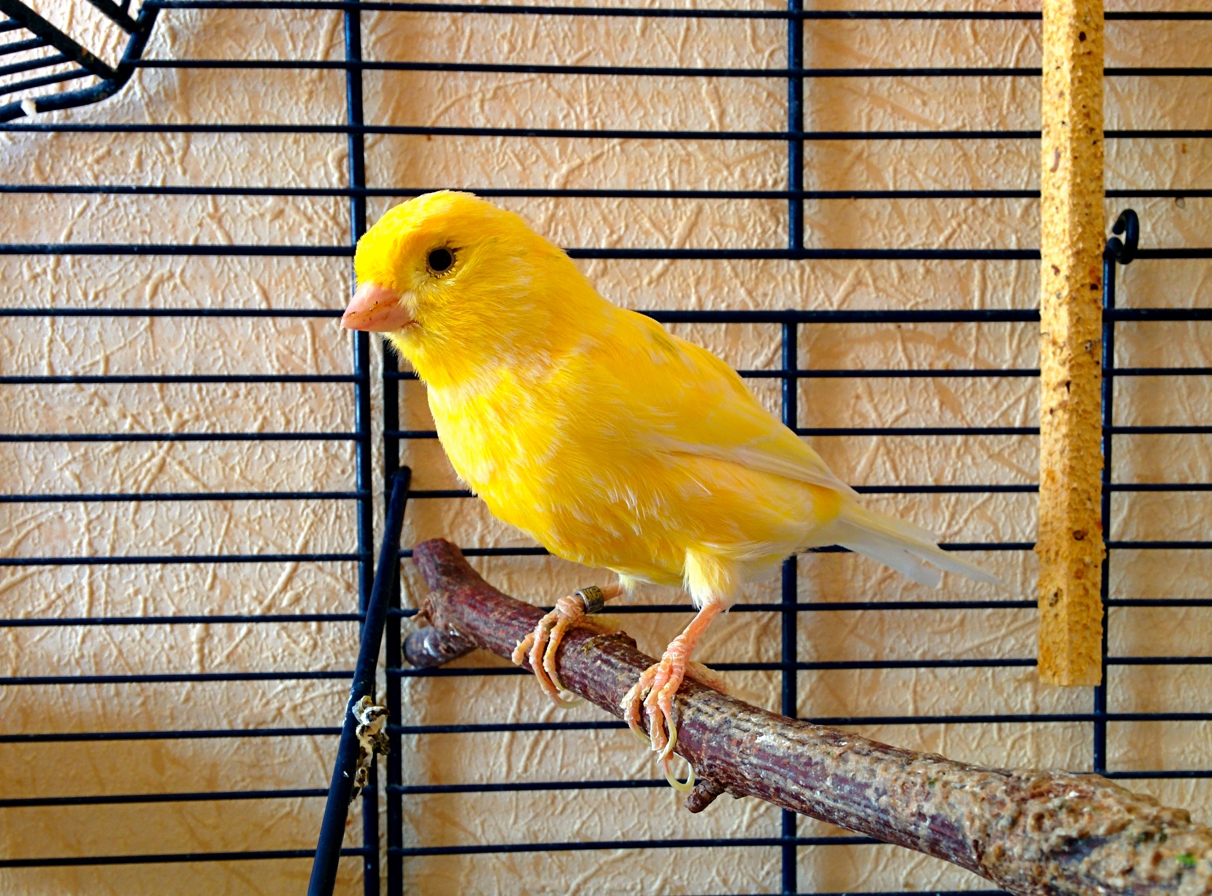 Harz Roller in the Harz Roller Canary-Museum in Sankt Andreasberg